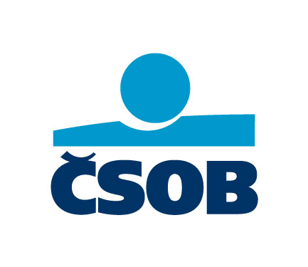 ČSOB logo